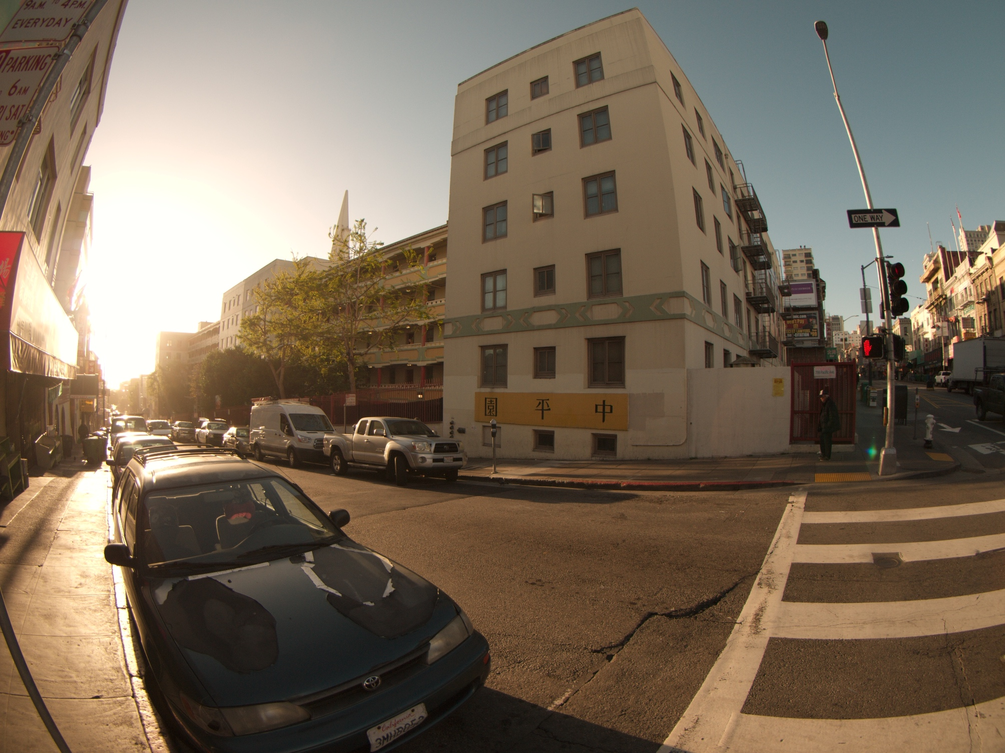 This is the one I think of as the main building, but just because it's the one I walk by the most. Stockton at Pacific.